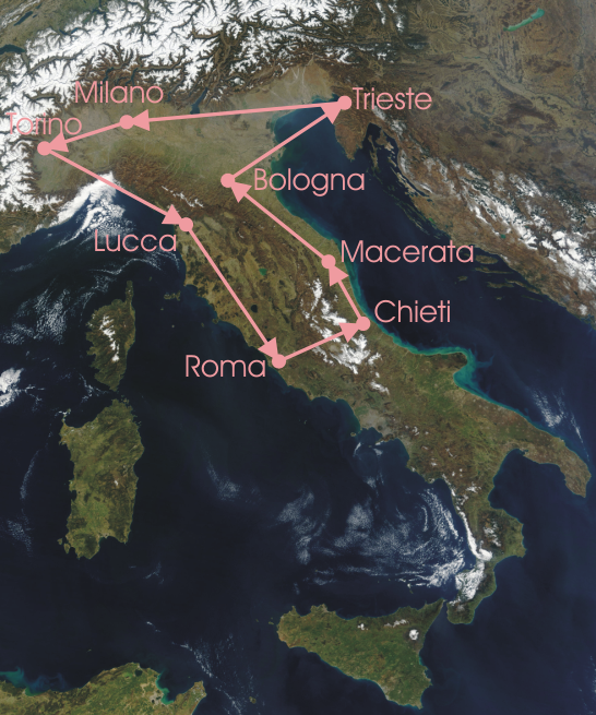 Map of Italy highlighting the stages of 1920 Giro d'Italia